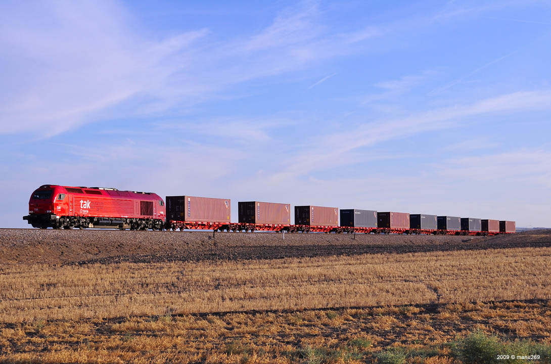 Cabañas de la Sagra: the locomotive 6001 of Takargo Rail on his journey from Lisboa (Alverca) to Madrid (Abroñigal).